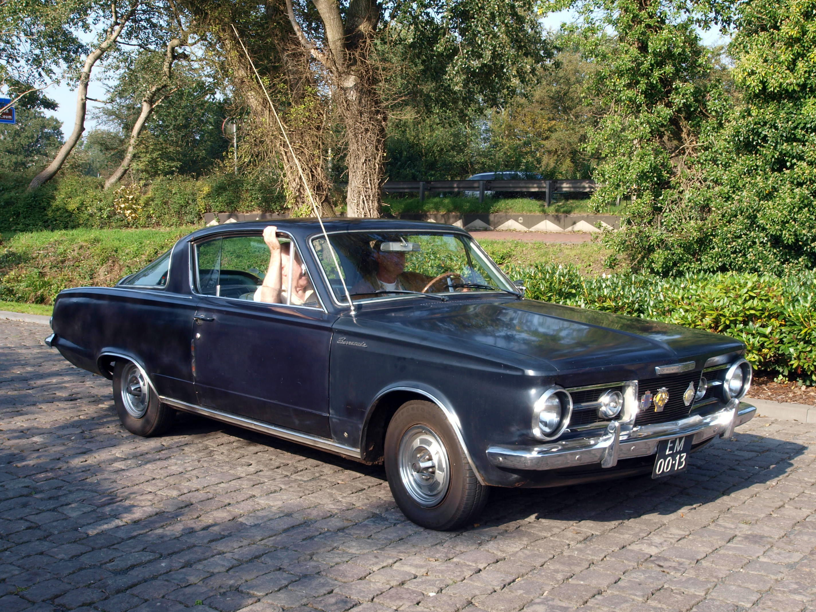 Plymouth Barracuda, photographed at the premises of the Louwman museum, The Hague, The Netherlands.